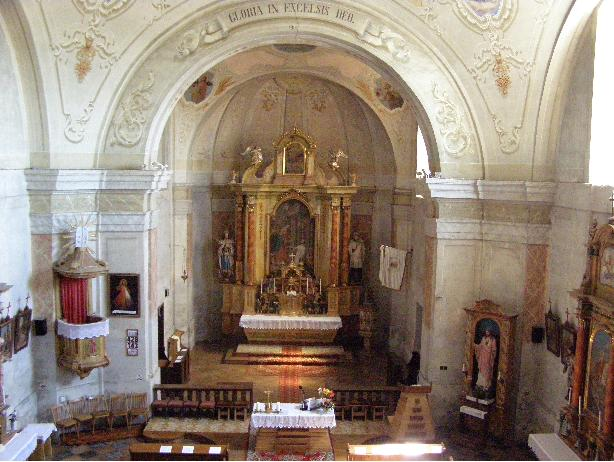 The high altar in the Istvánfalvian Church (organ-loft)